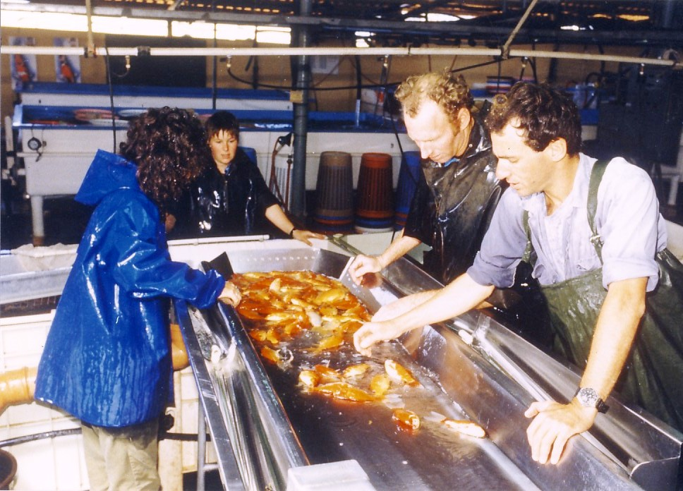 Gan-Shmuel - at the production of ornamental fish , Agriculture in Israel